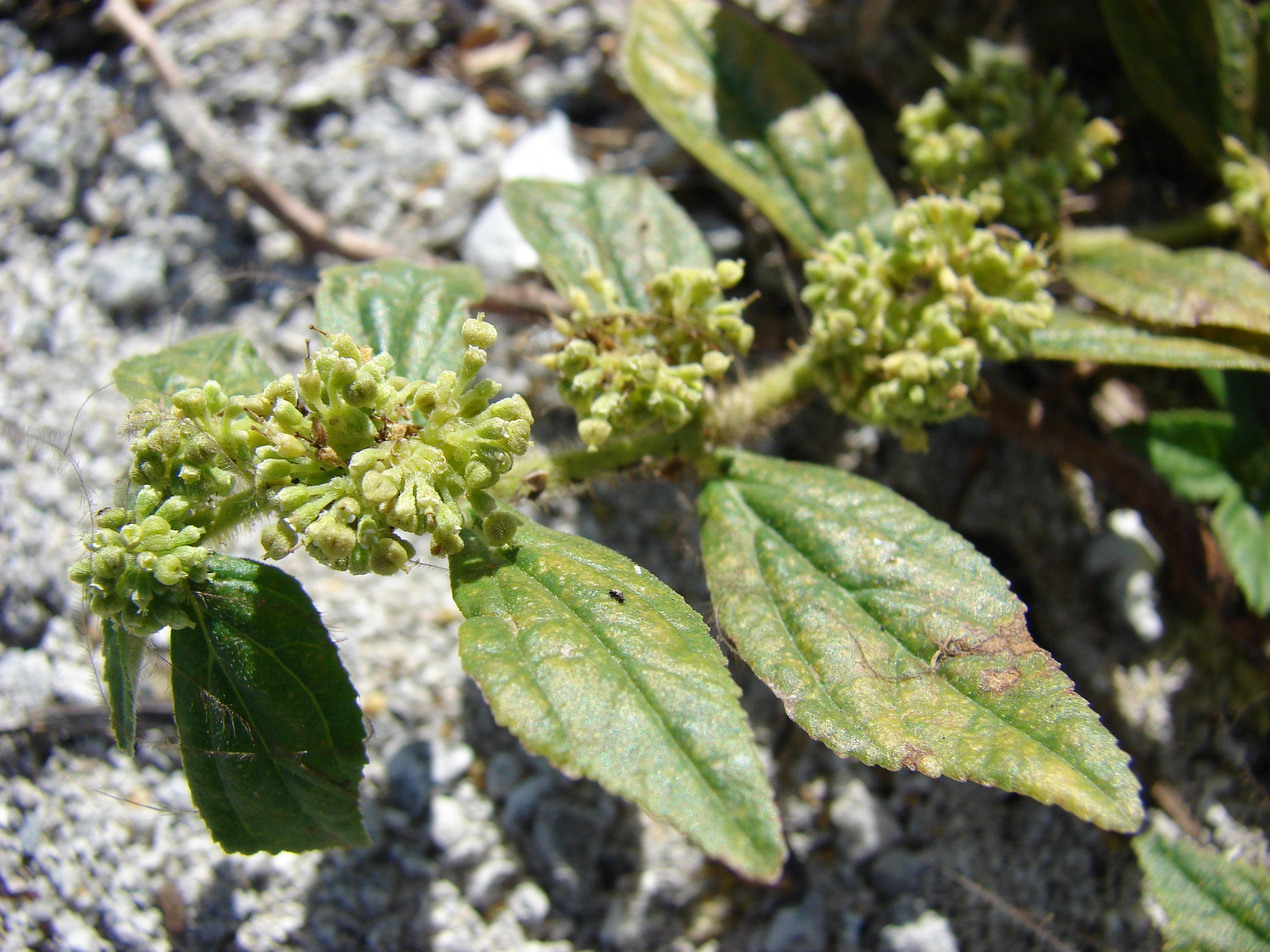 Chamaesyce hirta (flowers). Location: Midway Atoll, South Beach Sand Island